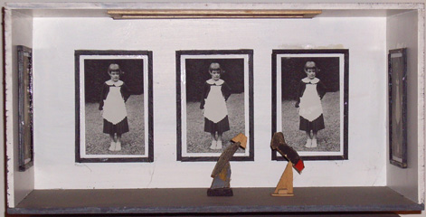 Galleria 20, 1990, assemblaggio, 20 x 40 x 20 cm